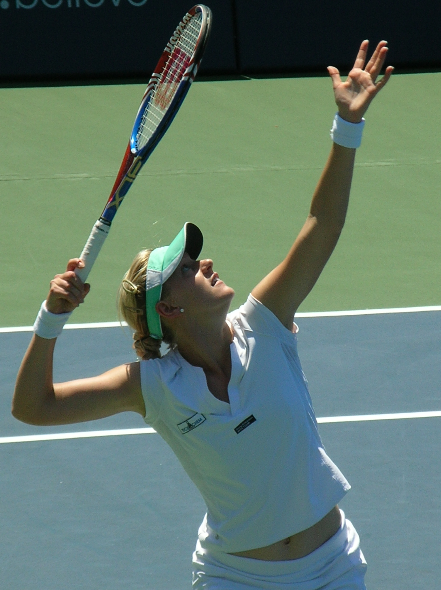 Alison Riske in the second round of qualifying at the Bank of the West Classic at Stanford. She lost to Mashona Washington 6-1, 6-4.